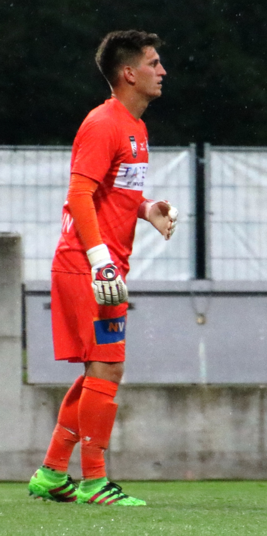 league match Austria 2nd league